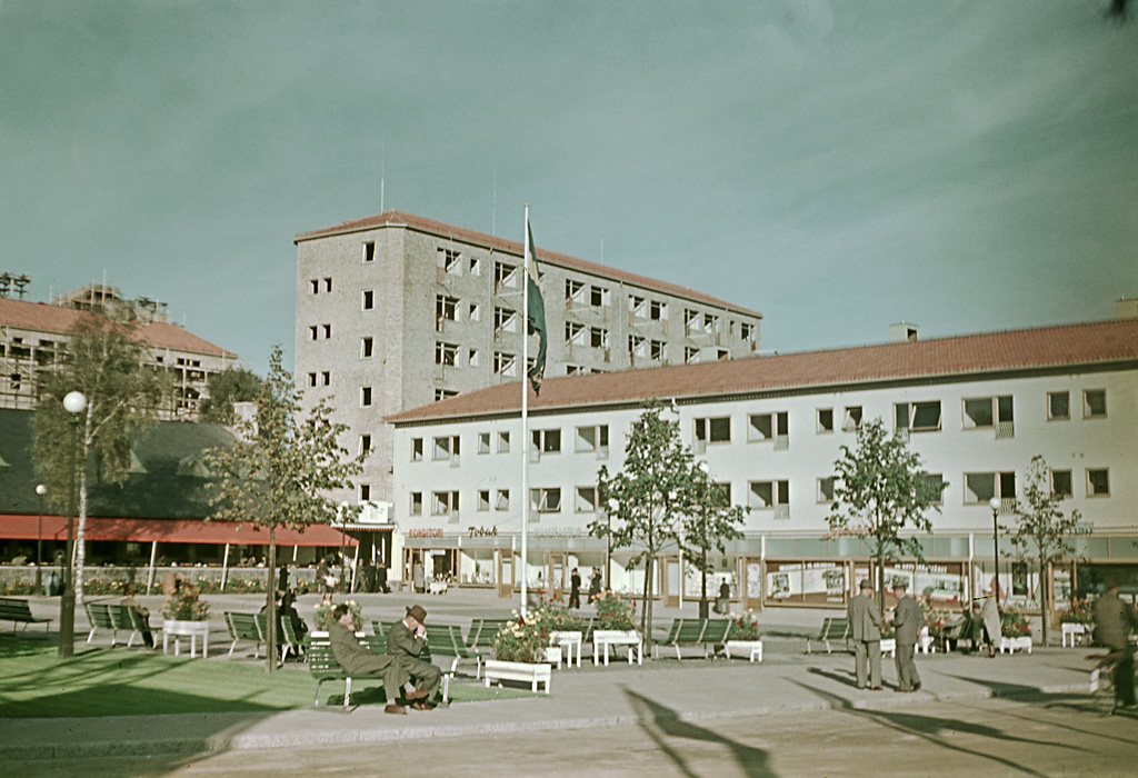 Guldheden Square in Guldheden area in Gothenburg. Guldhedstorget i Guldheden i Göteborg. Parish (socken): Göteborg Province (landskap): Västergötland Municipality (kommun): Göteborg County (län): Västra Götaland Photograph by: Fredrik Bruno Date: 1944 Format: Colour slide See a recent photo of the same view: Kulturmiljöbild: 16001000301244 Kulturmiljöbild: 16001000227664 (Persistent URL) Read more about the photo database (in english)